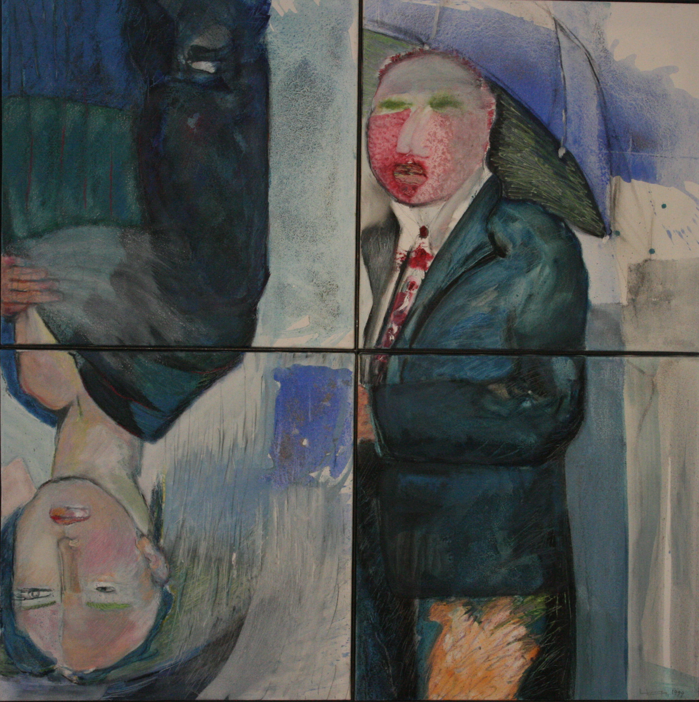 The Couple, A Never-ending Story, :ModulArt painting by Leda Luss Luyken